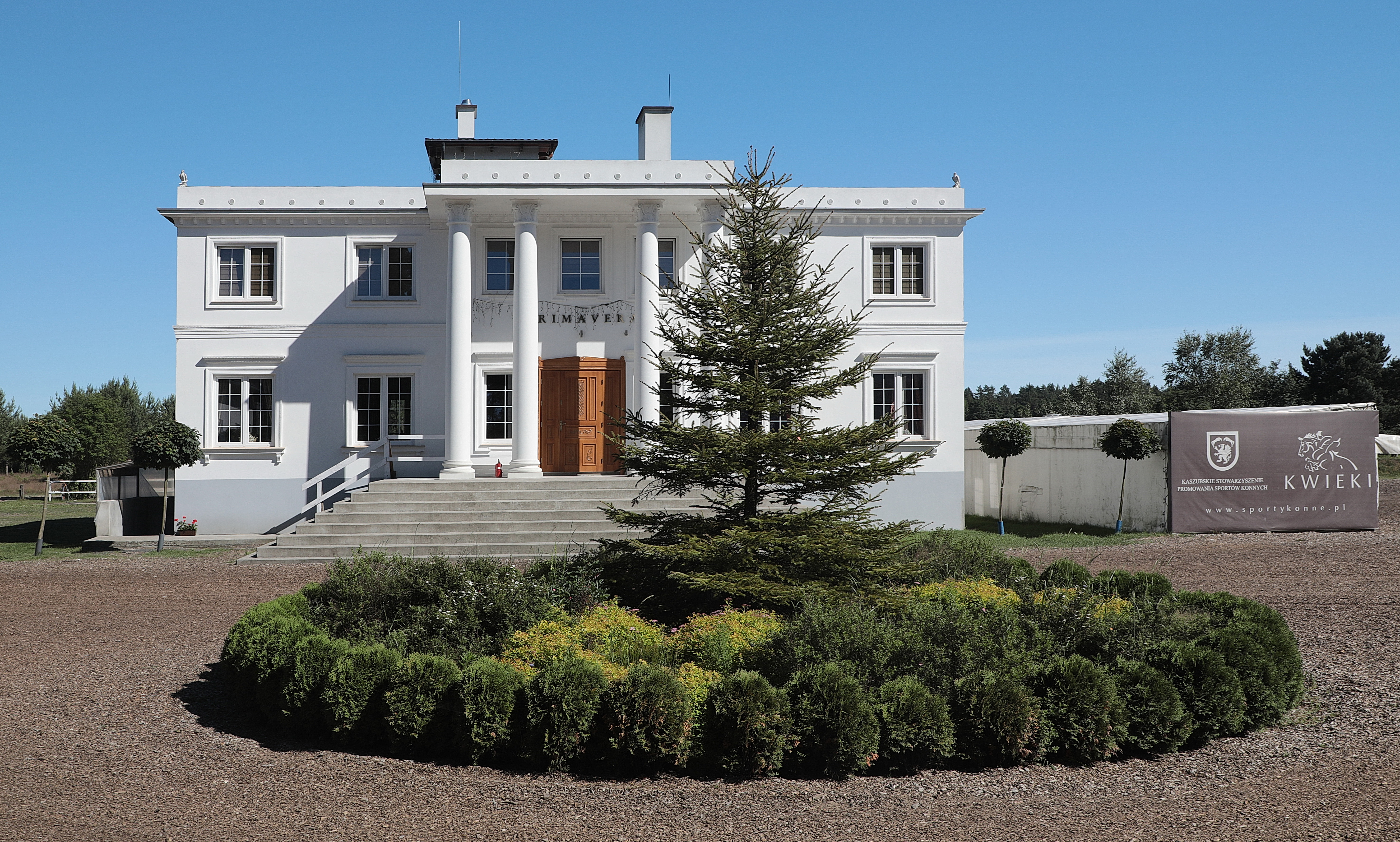 One of the buildings (Primavera) in Kwieki (KSPSK)